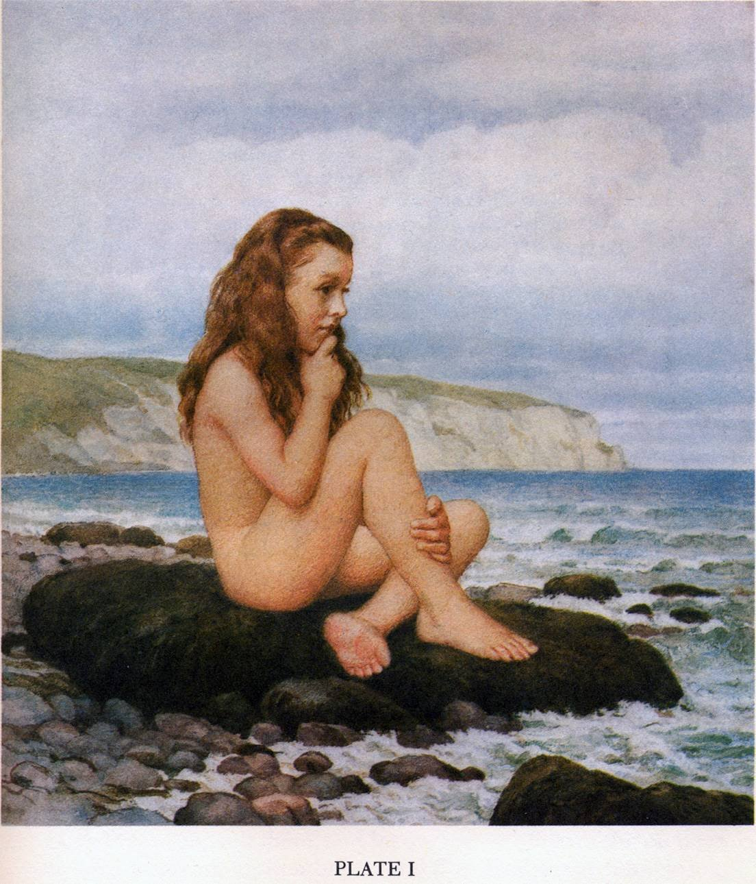 Beatrice Hatch, 30 july 1873